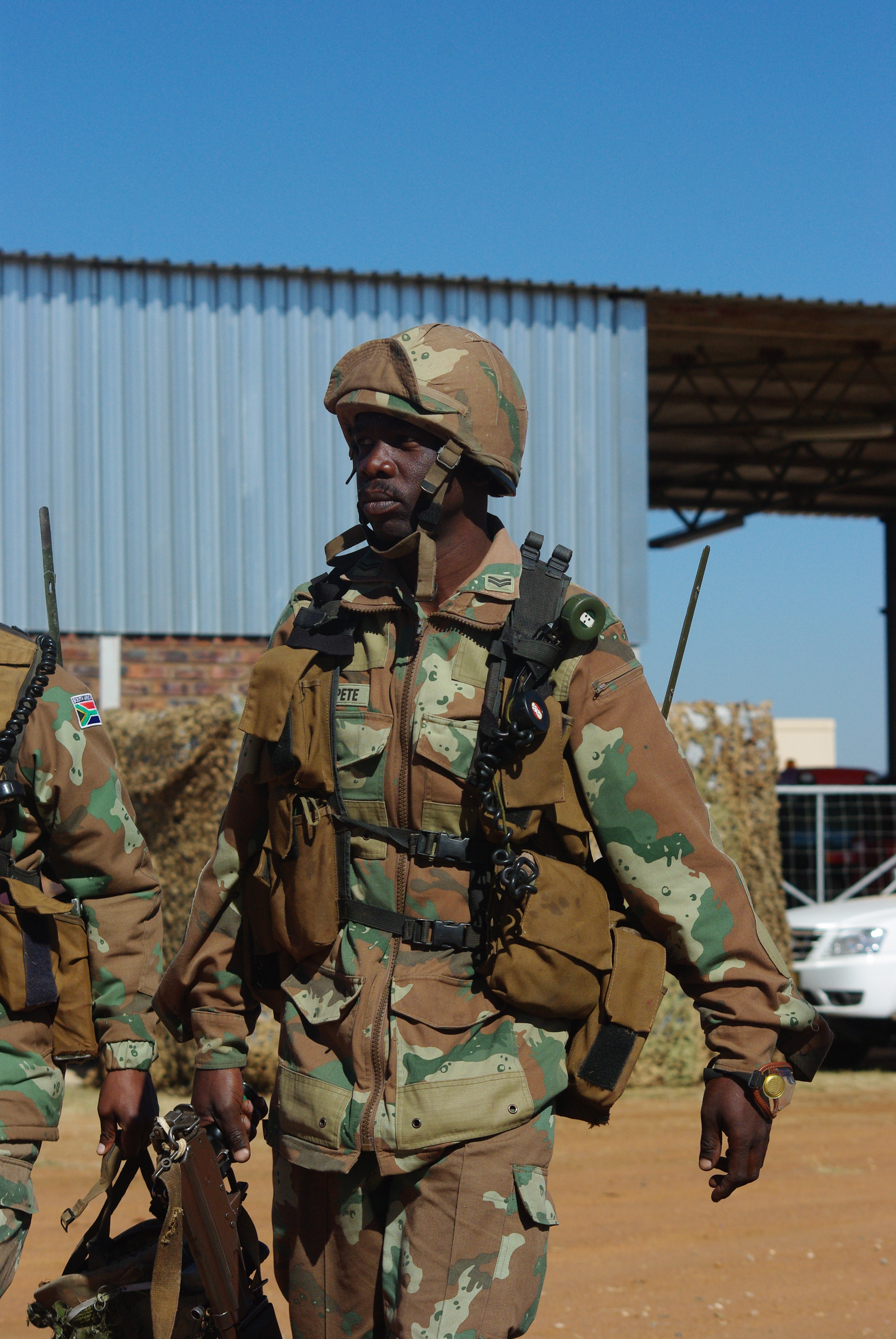 Roodewal Weapons Range 09/05/13 Roodewal Weapons Range